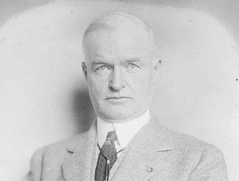 R. Clint Cole, congressman from Findlay, Ohio. glass negative, 5 by 7 inches or smaller. cropped from LOC image.